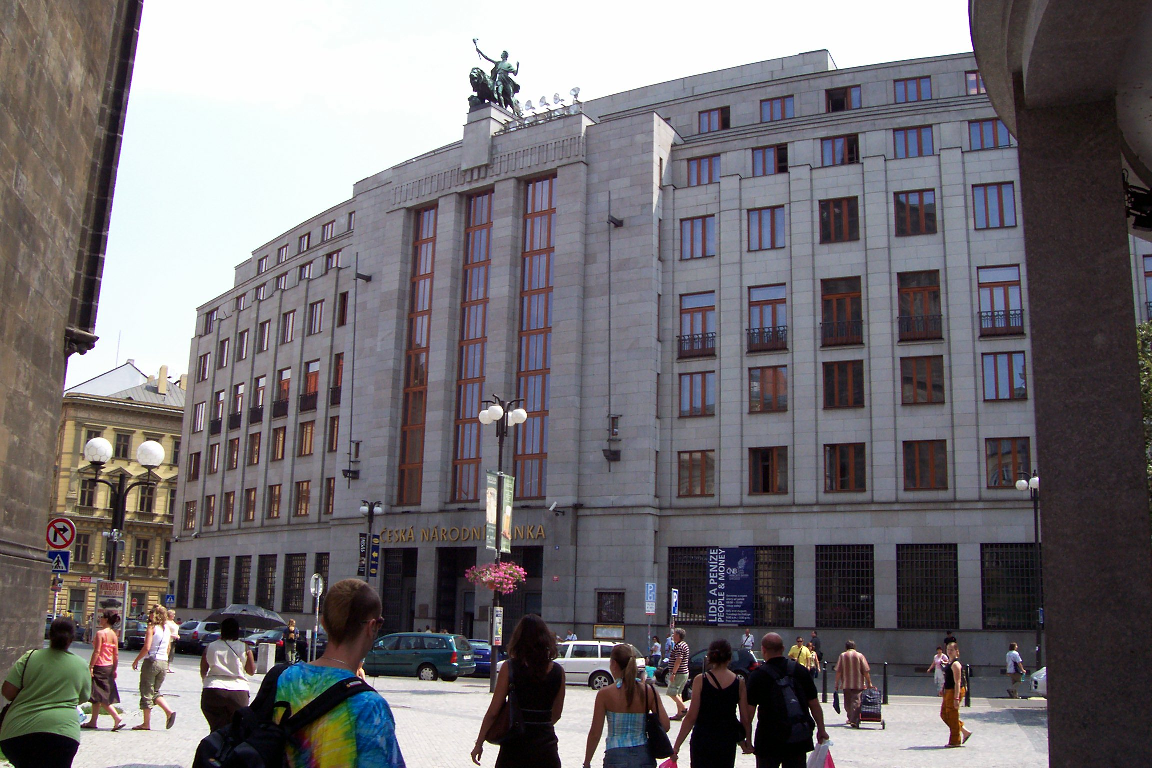 Czech central bank, HQ in Prague